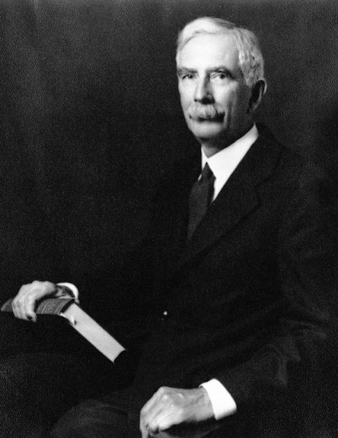 Dr. Charles G. Abbot, Fifth Secretary of the Smithsonian Institution, 1928-1944, seated holding a book in his right hand